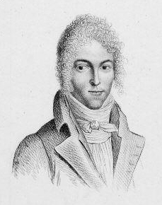 French violinist Charles Philippe Lafont (1781-1839)